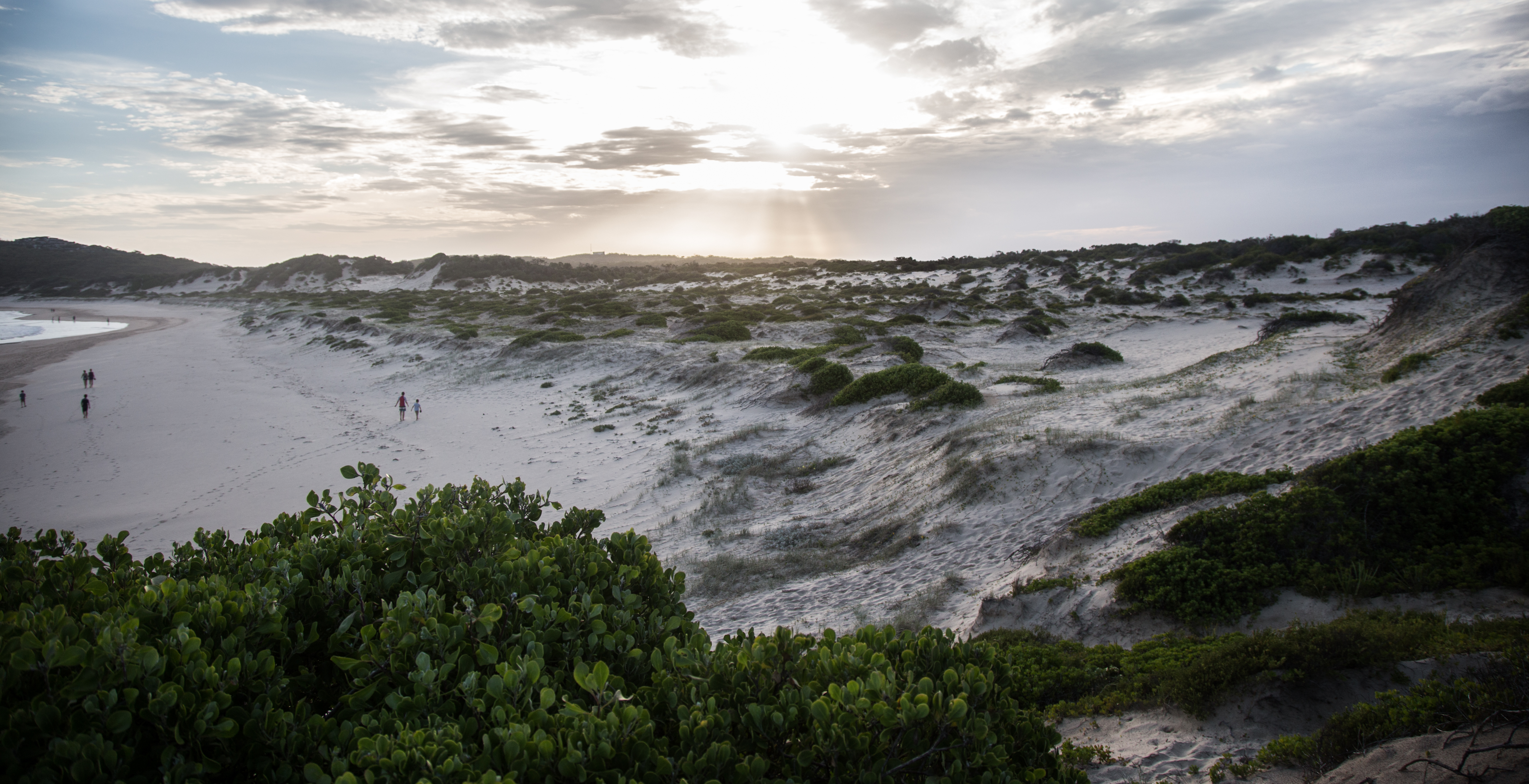 A photo of One Mile Beach in NSW. Taken from the northern end looking back down the beach.